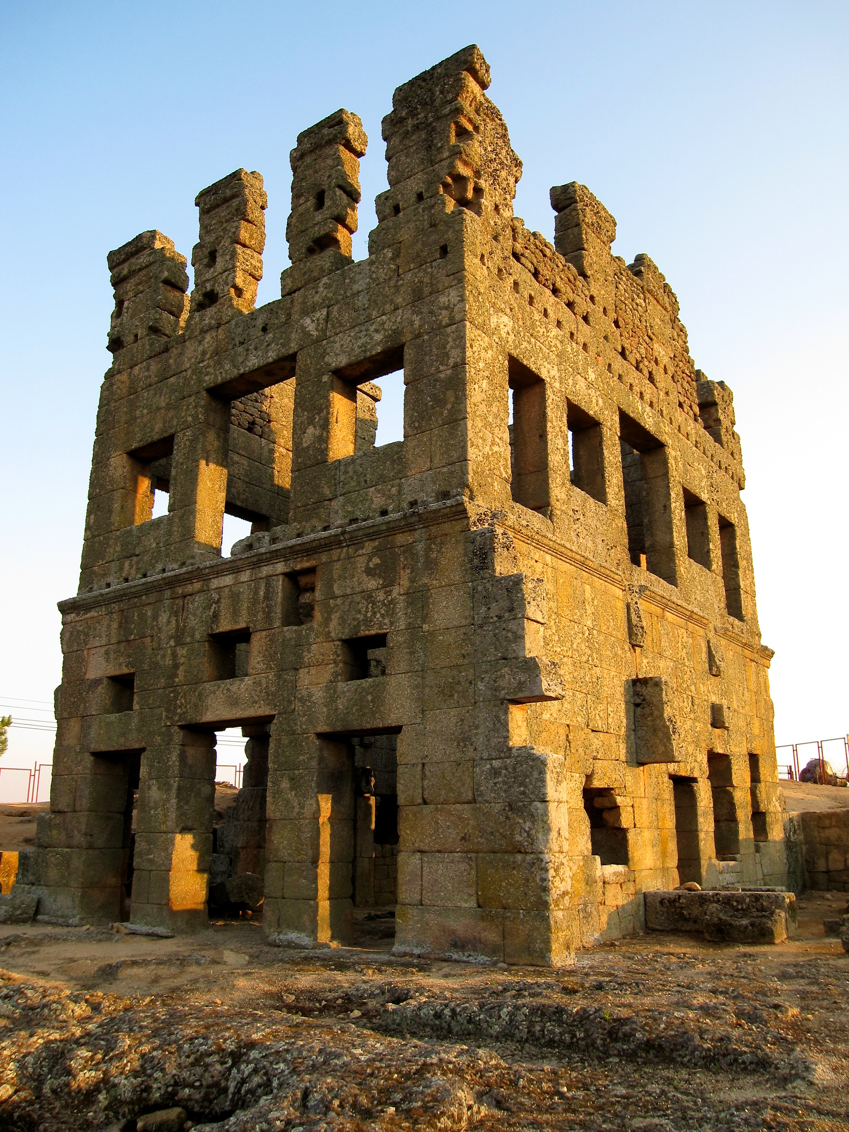 This monument is classified as Monumento Nacional. This file was uploaded for Wiki Loves Monuments in Portugal with the unique identifier 70345.